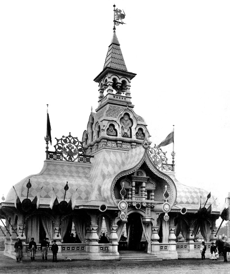 Moscow, 1896, Nicholas Romanov coronation stand by Fyodor Schechtel - present-day Triumfalnaya Square